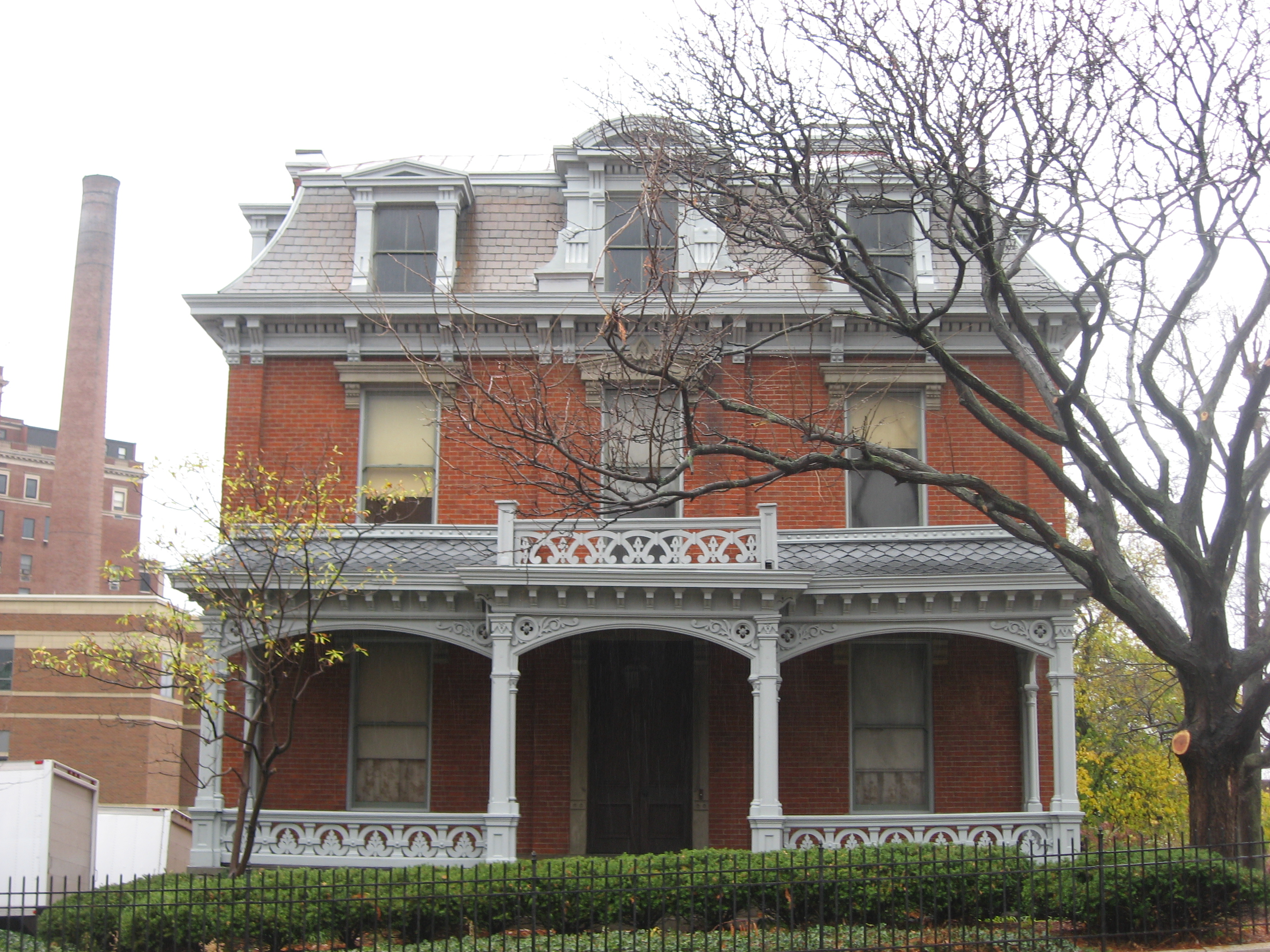 Front of the Henry Powell House, located at 2209 Auburn Avenue in Cincinnati, Ohio, United States. Built in 1858, it is listed on the National Register of Historic Places, and it is part of a Register-listed historic district, the Mount Auburn Historic District.